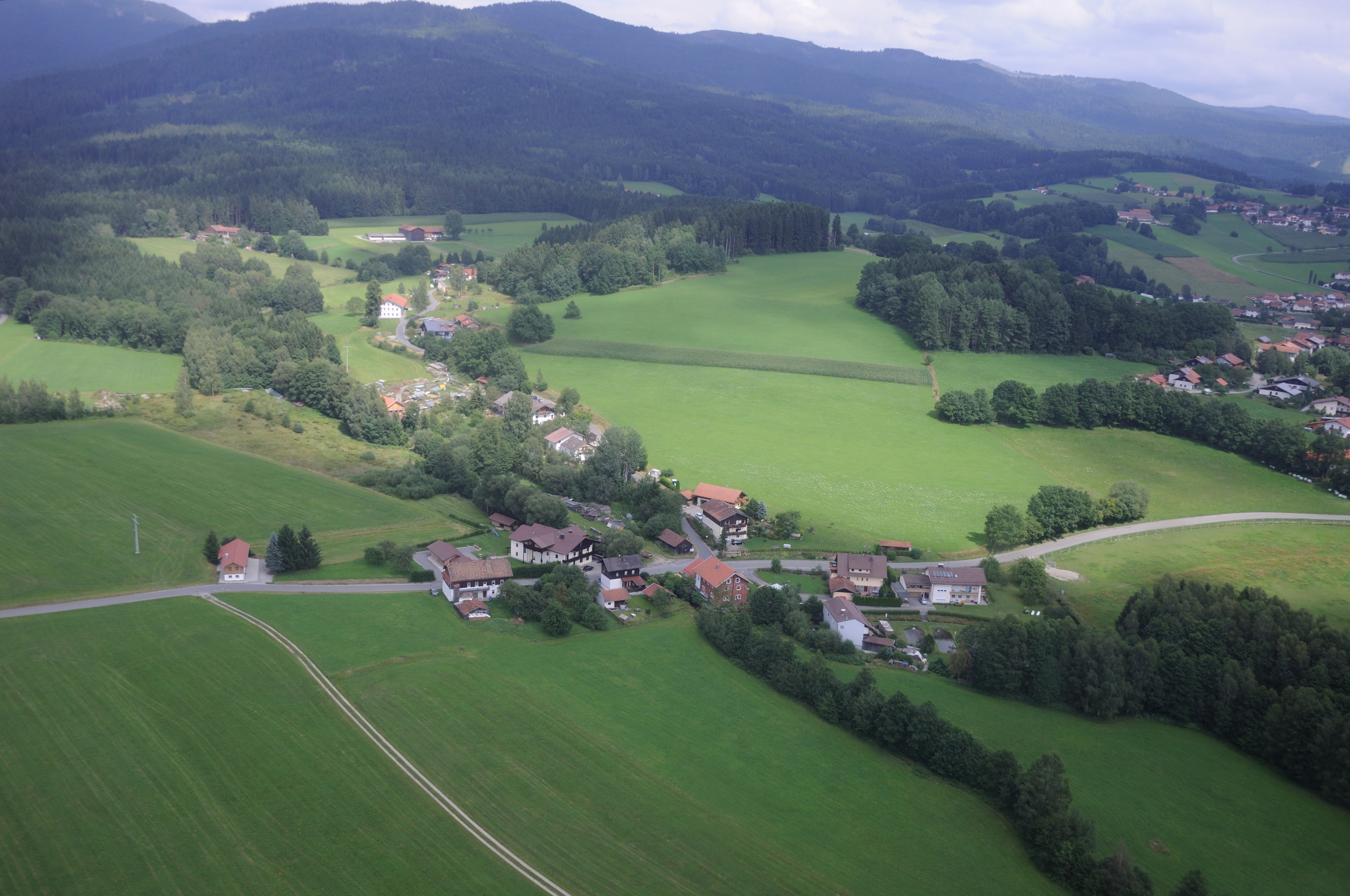 Germany, Bavaria, round trip from Arnbruck airfield